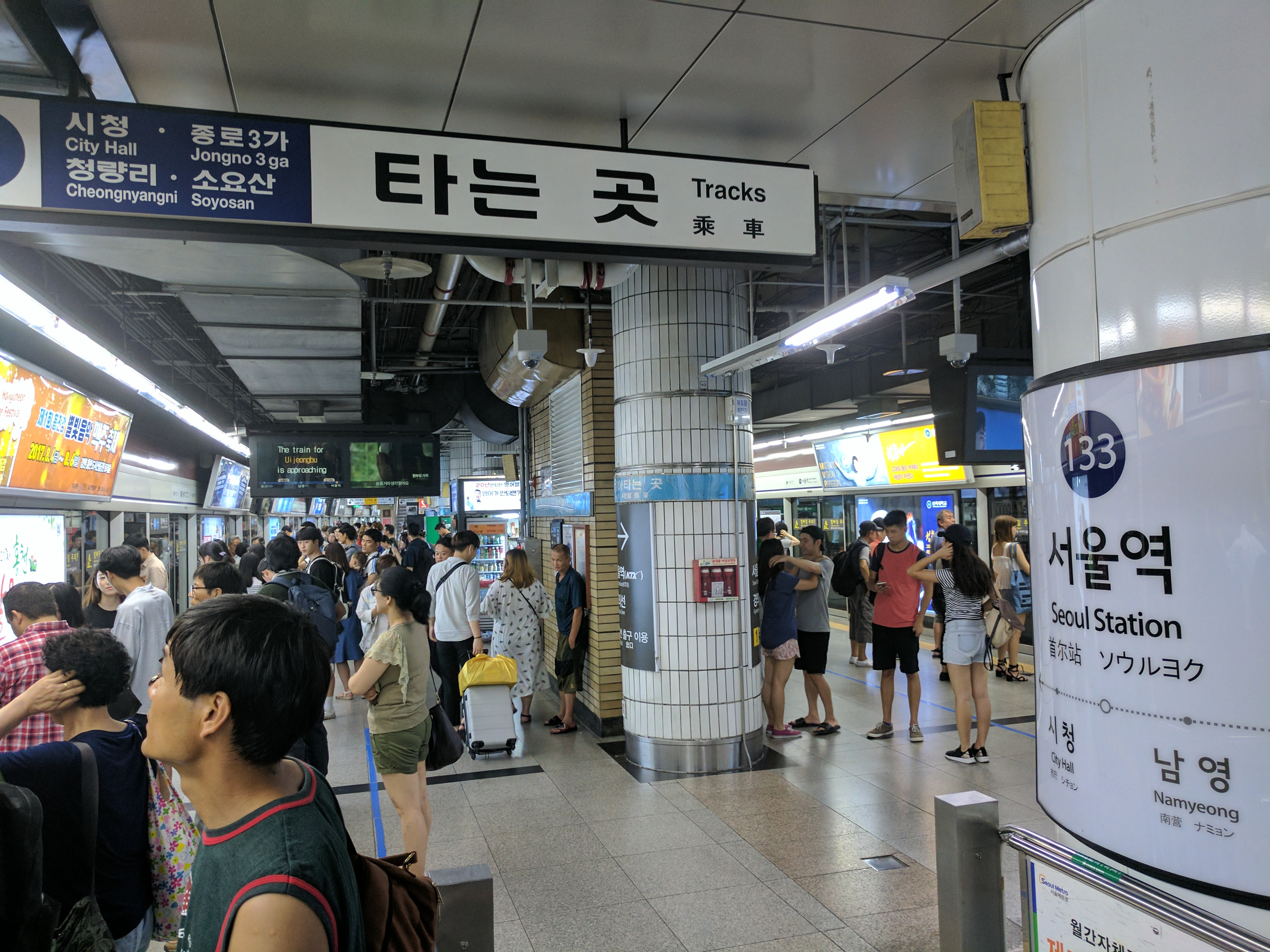 Seoul Station